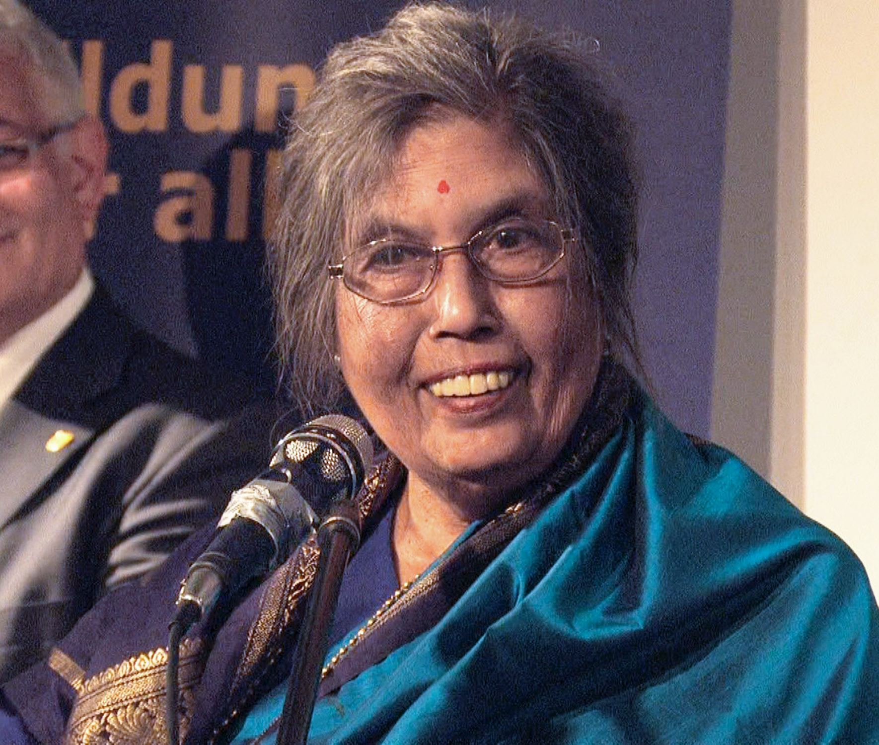 Saraswati Albano-Muller from Schwelm, on the occasion of an "Integration Prize" being awarded to her in Schwelm on 25 September 2013